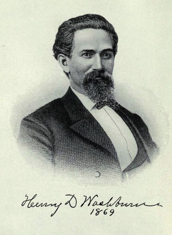 Henry D. Washburn Portrait (1869) from DIARY OF THE WASHBURN EXPEDITION TO THE YELLOWSTONE AND FIREHOLE RIVERS IN THE YEAR 1870-BY NATHANIEL PITT LANGFORD